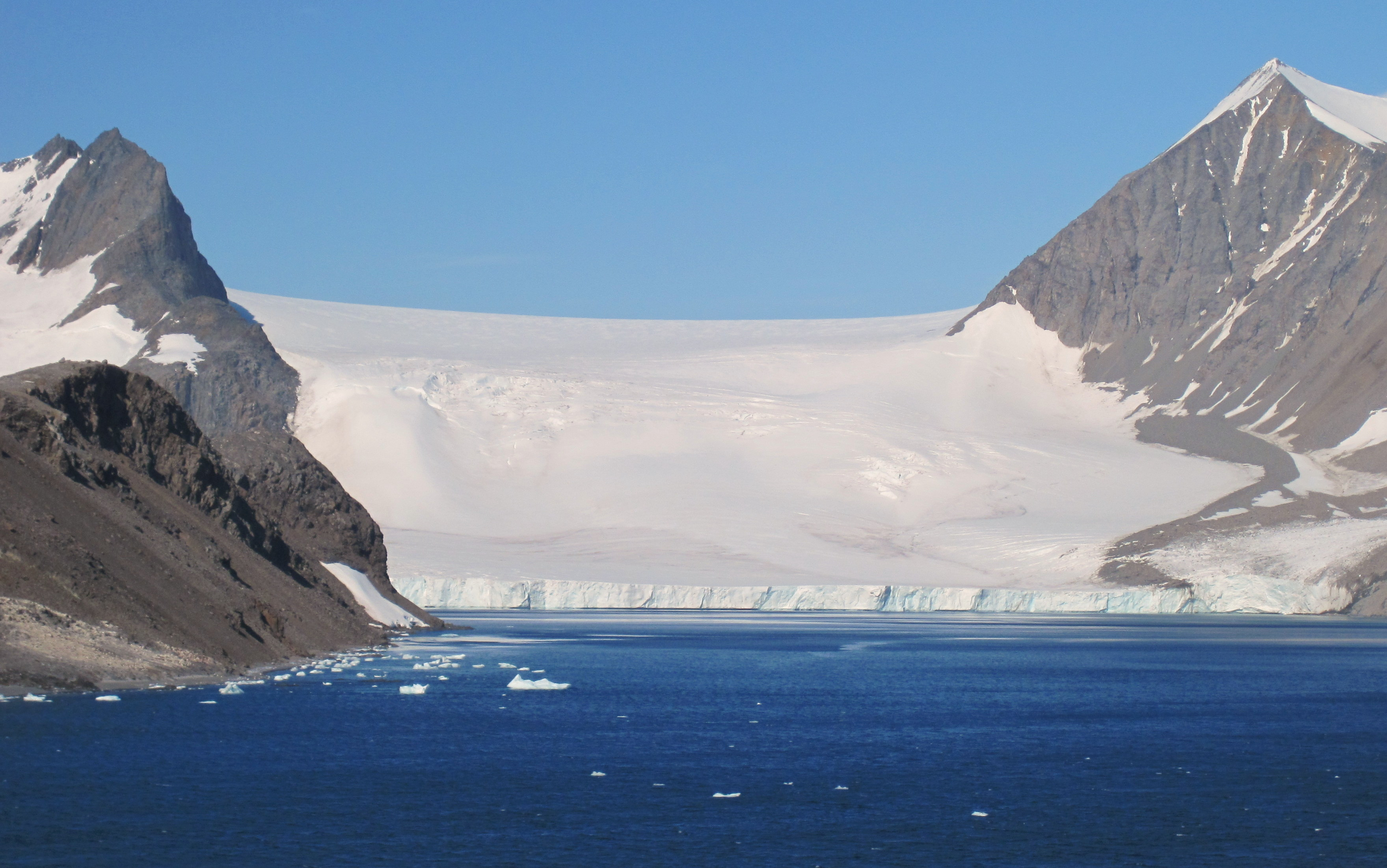 A glacier flowing into Hope Bay near the northern tip of the Antarctic Peninsula